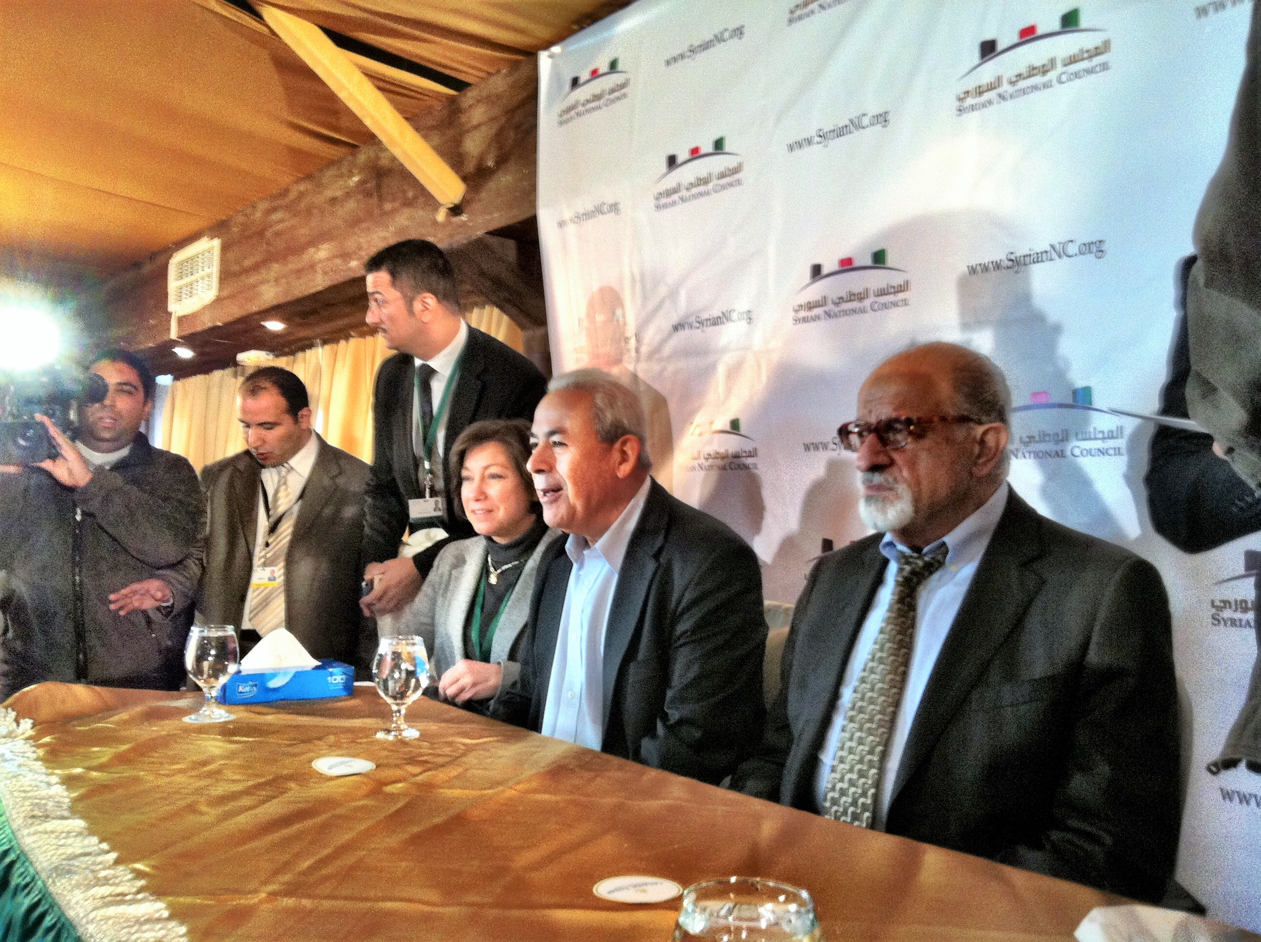 Members of Syrian National Council at the first congress in Tunis at 19 December 2011. In the middle Dr. Burhan Ghalioun, president of SNC and to his right Haitham al-Maleh, executive branch of SNC.